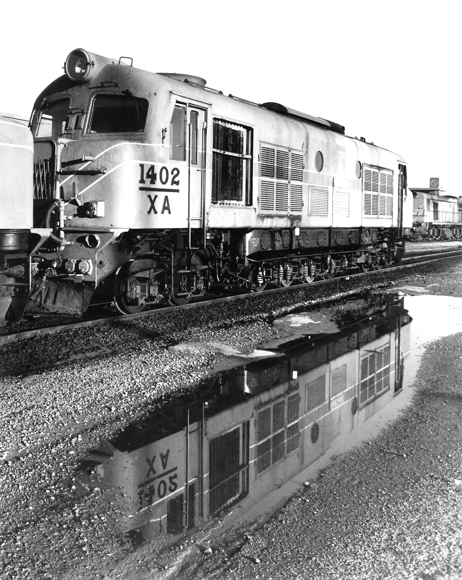 Western Australian Government Railways (WAGR) XA class diesel-electric locomotive no XA 1402 Targari, in Westrail orange and blue livery, at Forrestfield Yard.Scan of a black and white print.